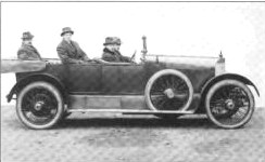 1915 F.R.P. Model 45 Series B Holbrook 7-passenger Touring car.